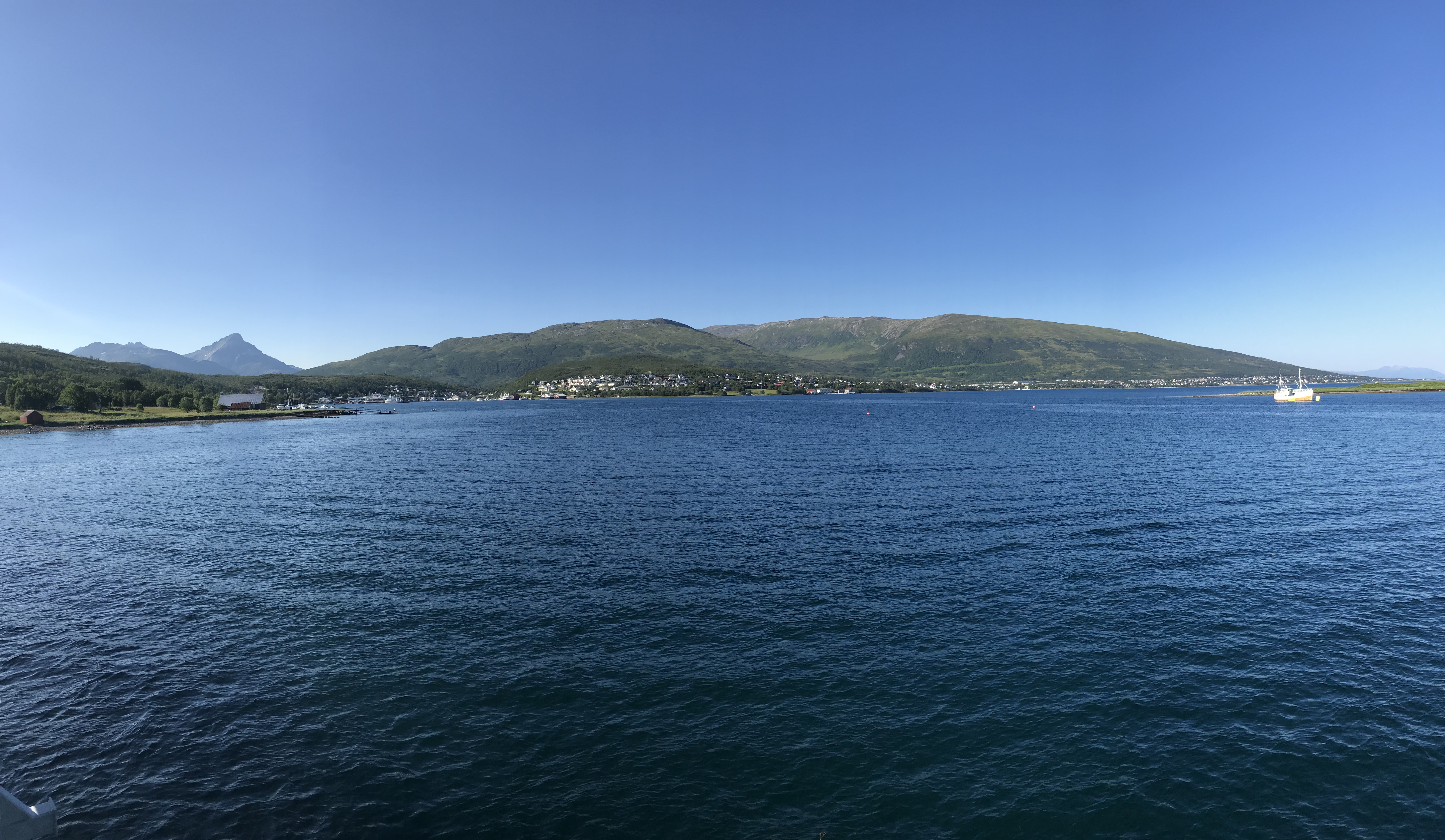 View of Eidkjosen seen from the bridge to Håkøya at Kvaløya, Troms Norway.